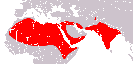 Lesser Mouse-tailed Bat (Rhinopoma hardwickei) range